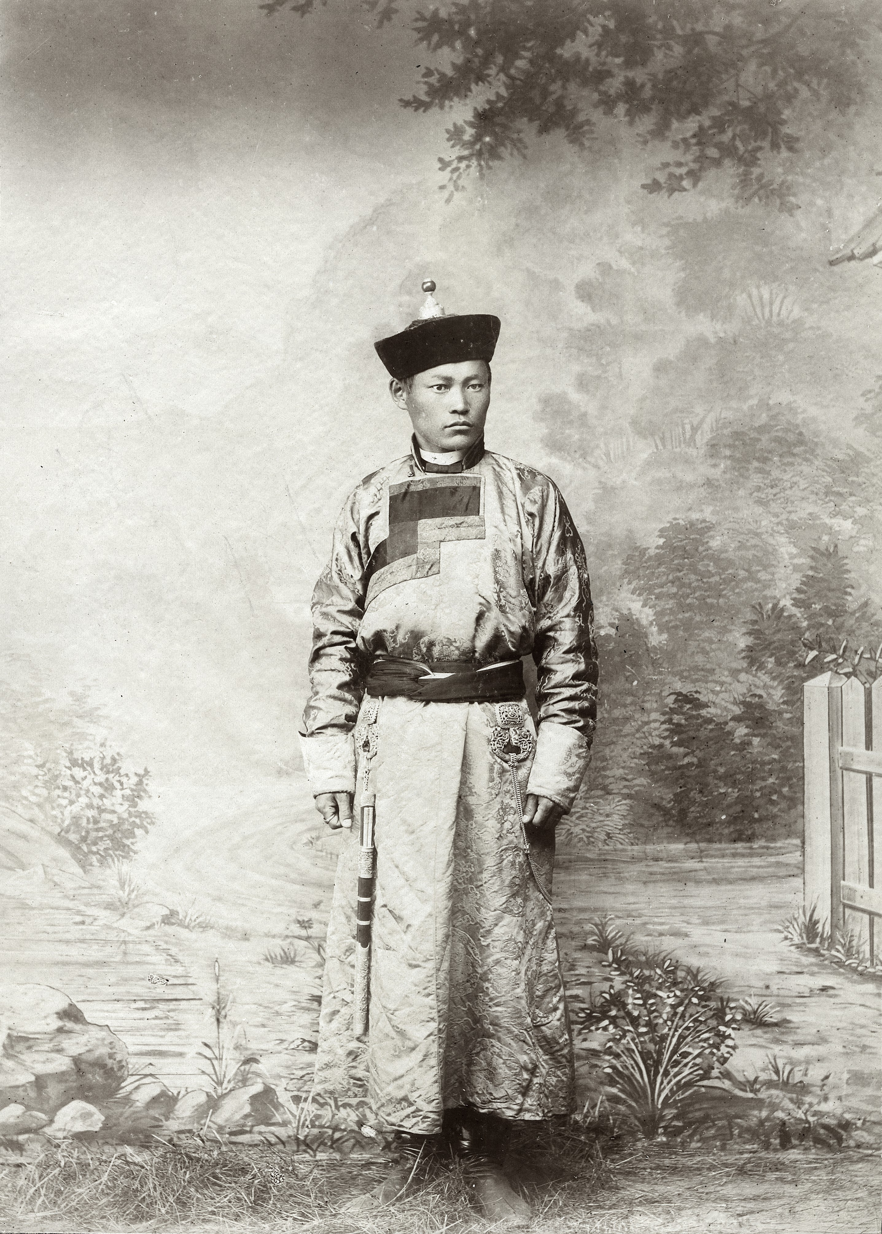 A Buriat in the traditional festive clothes